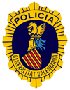 Badge of the Policia de la Generalitat. This image shows an official insignia. The use of such symbols is restricted. These restrictions are independent of the copyright status.